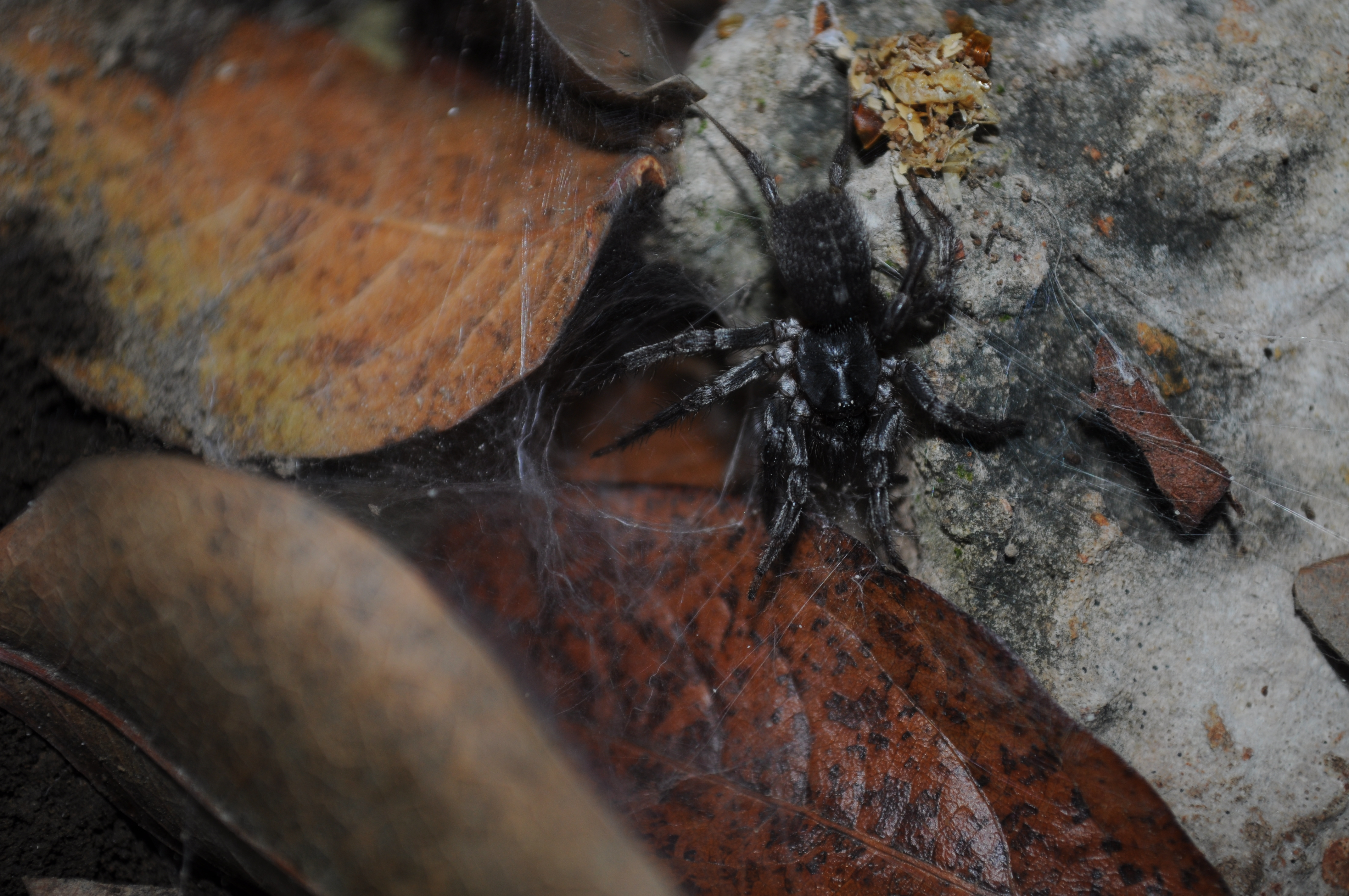 Ischnothele caudata